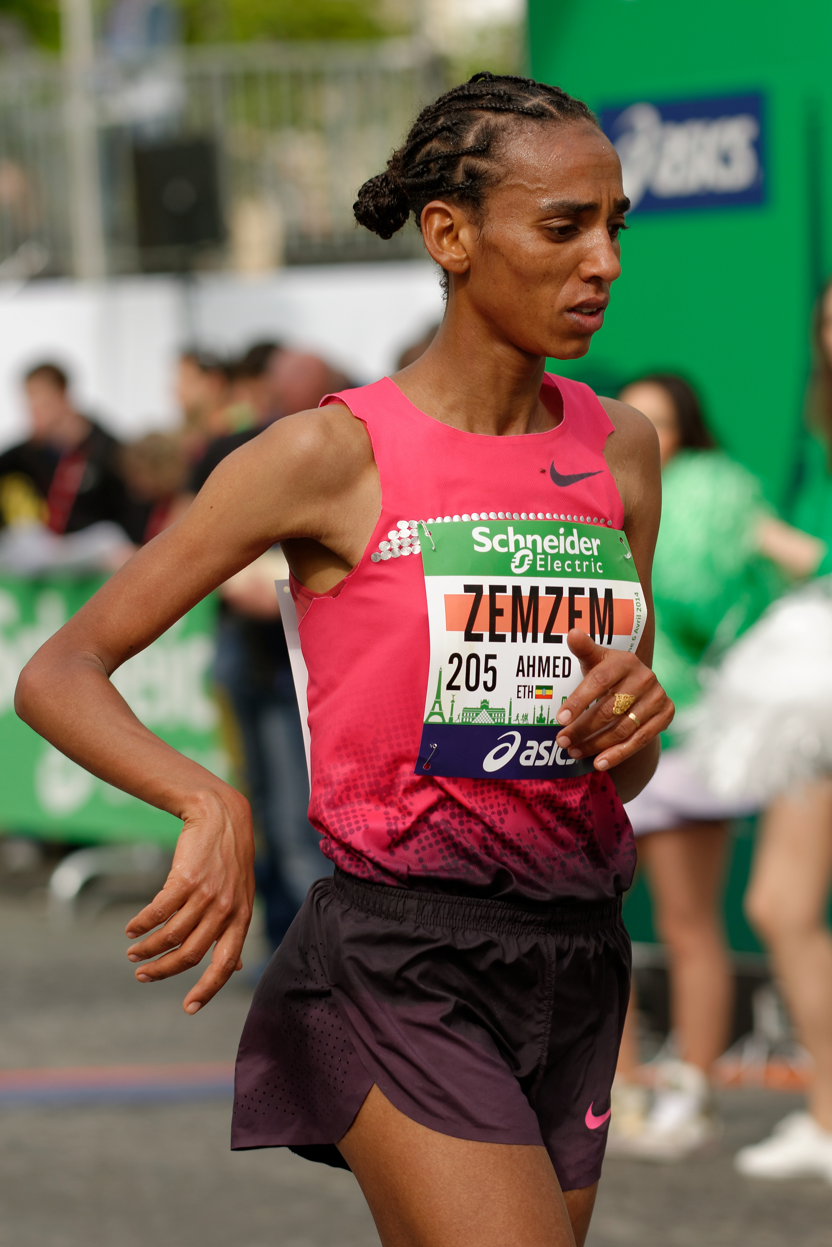 Ethiopia's Zemzem Ahmed crosses the finish line of the 2014 Paris Marathon.